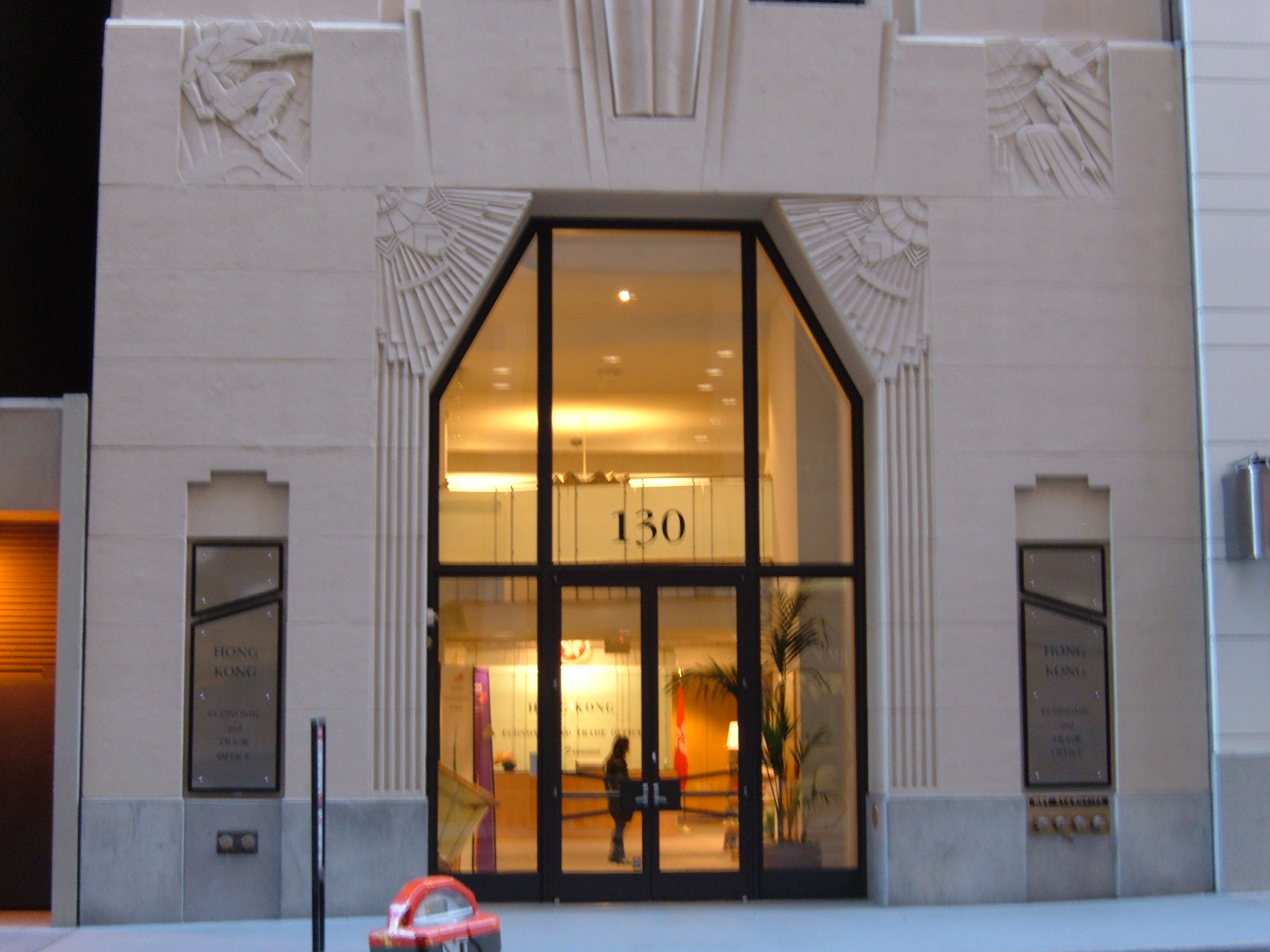 The Hong Kong Economic and Trade Office at 130 Montgomery Street in San Francisco, California.